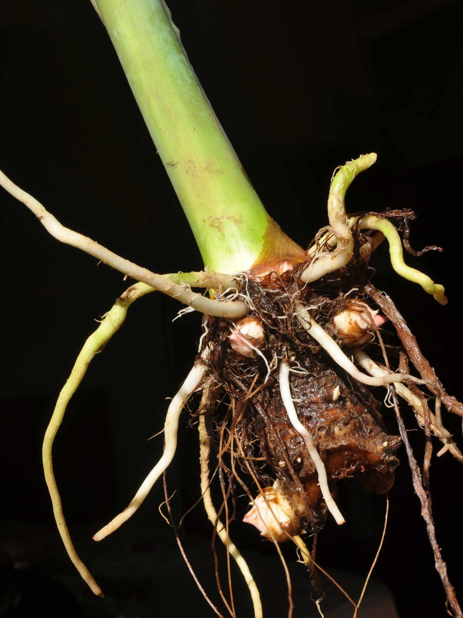 Tannia, Xanthosoma sagittifolium; corms. From Bogor, West Java, Indonesia.